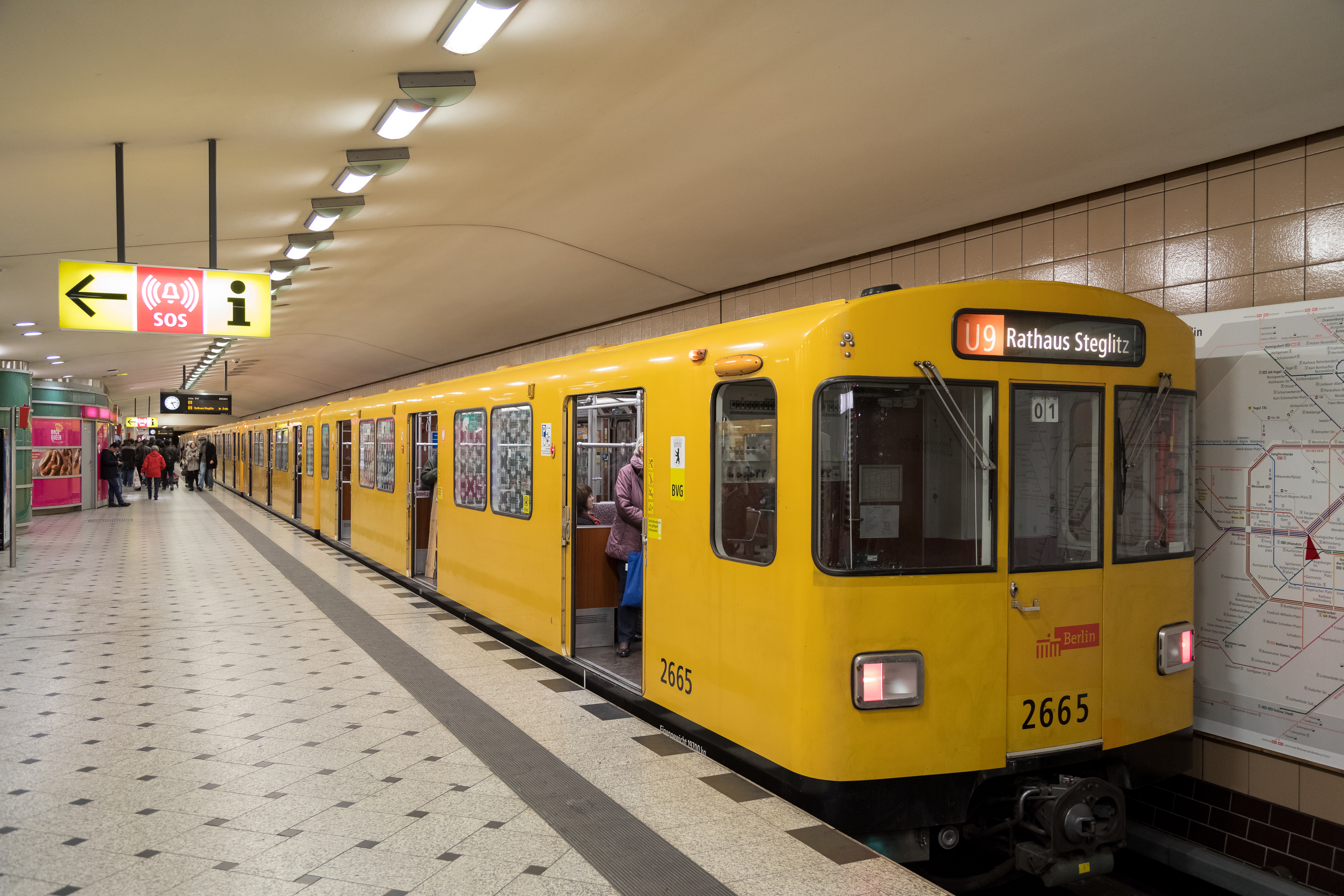 Train (type F79.1.) of underground line U9 in direction Rathaus Steglitz at Zoologischer Garten station, Berlin, Germany